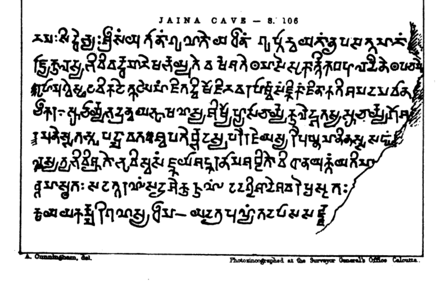 The Udayagiri Caves are twenty rock-cut caves near Vidisha, Madhya Pradesh from the early years of the 5th century CE. 19 of them are Hindu cave temples, 1 is a Jaina cave temple, both co-located. These contain some of the oldest surviving Hindu temples and iconography in India, as well some of early inscriptions. The iconography includes those for Vishnu, Devi, Shiva along with other Vedic and Puranic deities. The reliefs narrate Hindu religious legends as well show secular scenes such as daily life, lovers and meditating people. These images are photographs from the appendix of a book published in 1880 by Alexander Cunningham for the Archaeological Survey of India, Volume 10 (personal copy). The photographed plates are XVI through XIX. The link below is provided for easier verification of the publication date and PD-Art-100-70 category confirmation.